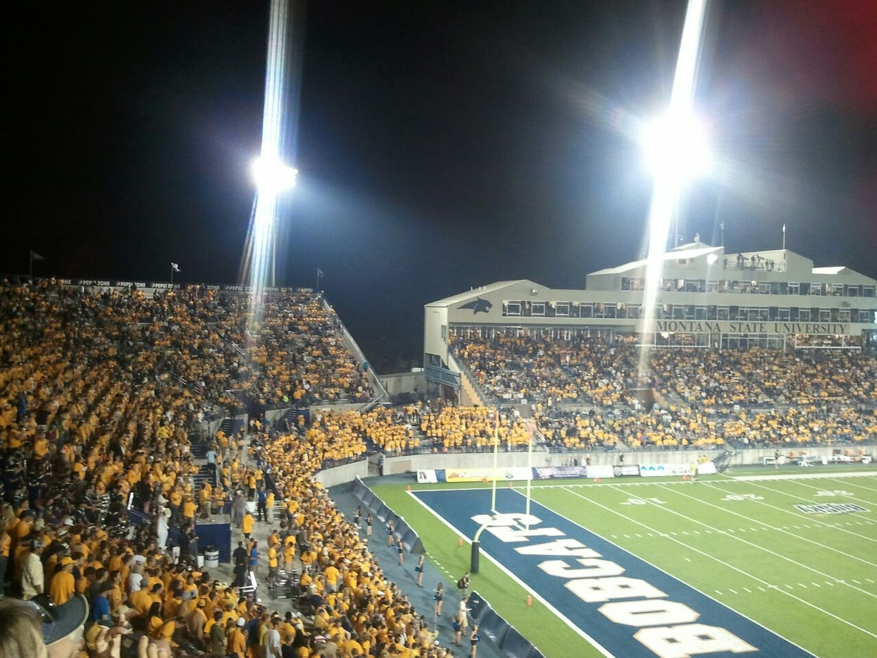 Montana State Bobcats home opener vs. Chadron State. The first night game in the history of Bobcat Stadium. A stadium record of 20,767 were in attendance.